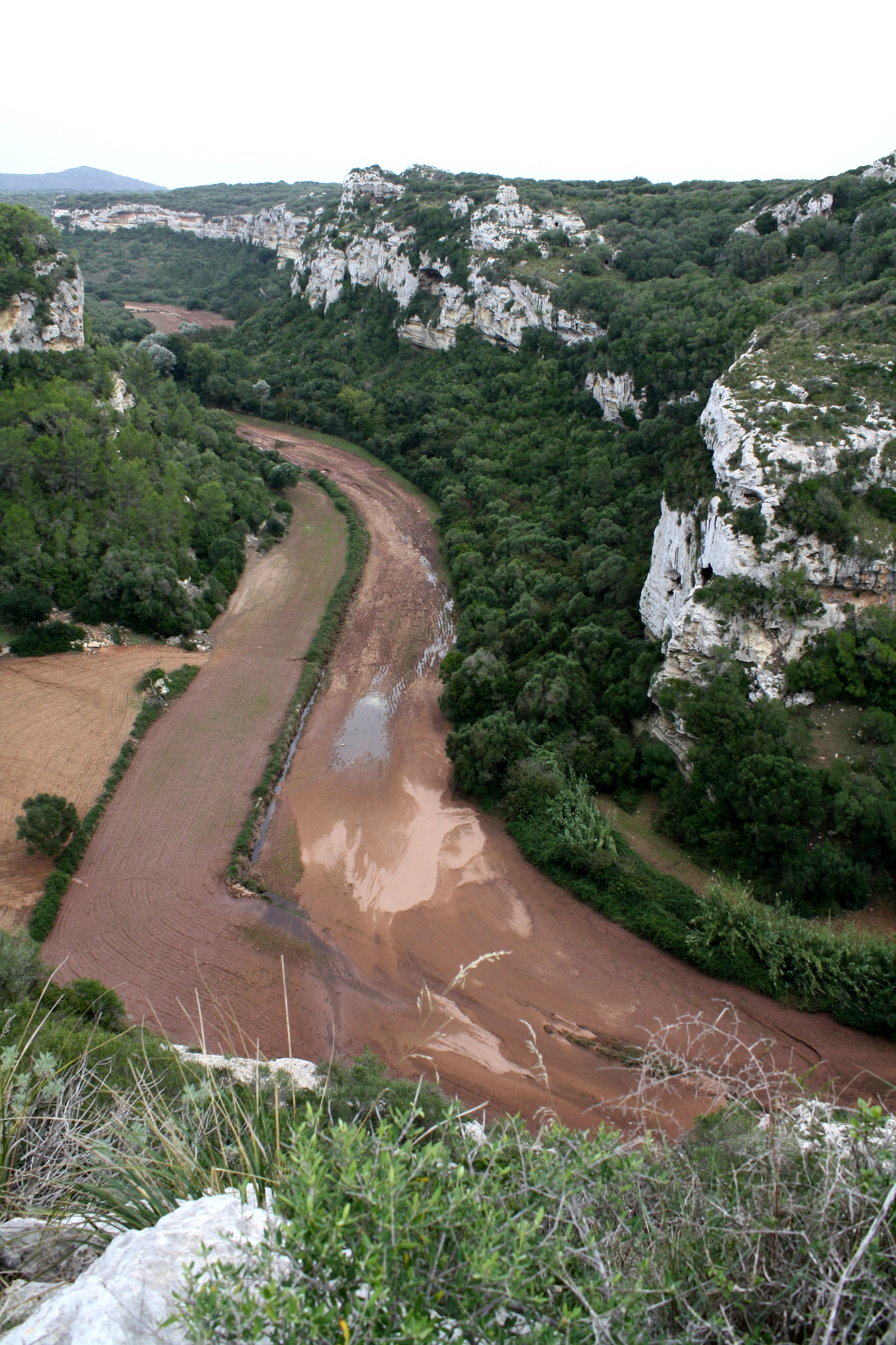 View from prehistoric settlement Son Mercer de Baix into Son Fideu Gorge, Ferreries, Minorca.